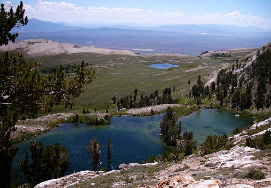 Hidden Lakes (foreground), in the Ruby Mountains of northeastern Nevada, looking southeast. In the nearer distance is Soldier Basin and the Soldier Lakes group. In the far distance is Ruby Valley.